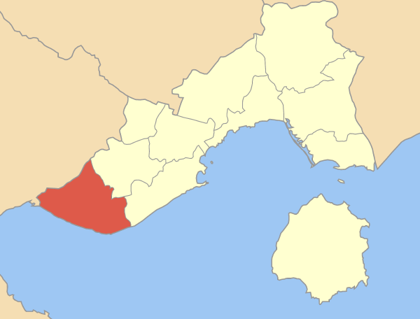 Locator map of Orfani municipality (Δήμος Ορφανού) in Kavala prefecture (Νομός Καβάλας) in Greece.